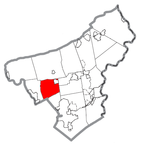 A map of Northampton County showing East Allen Township, Pennsylvania highlighted on the map.